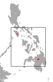 Philippine Tailless Leaf-nosed Bat (Coelops hirsutus = Coelops robinsoni hirsutus) range